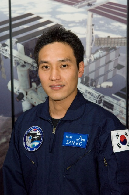 San Ko, South Korean spaceflight participant (Photo taken following a Houston press conference on Jan. 15, 2008). [Soyeon Yi has been named to replace San Ko as South Korea's first astronaut, it was announced March 10.]